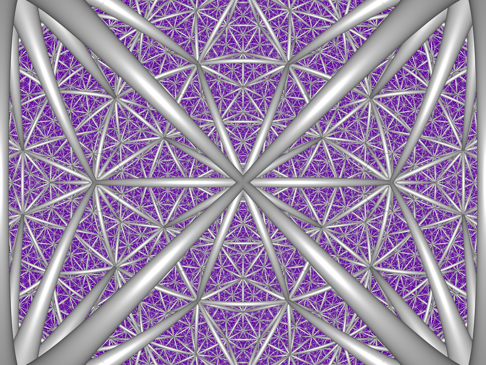 [(4,3,3,3)] hyperbolic honeycomb with second mirror of fundamental simplex activated.